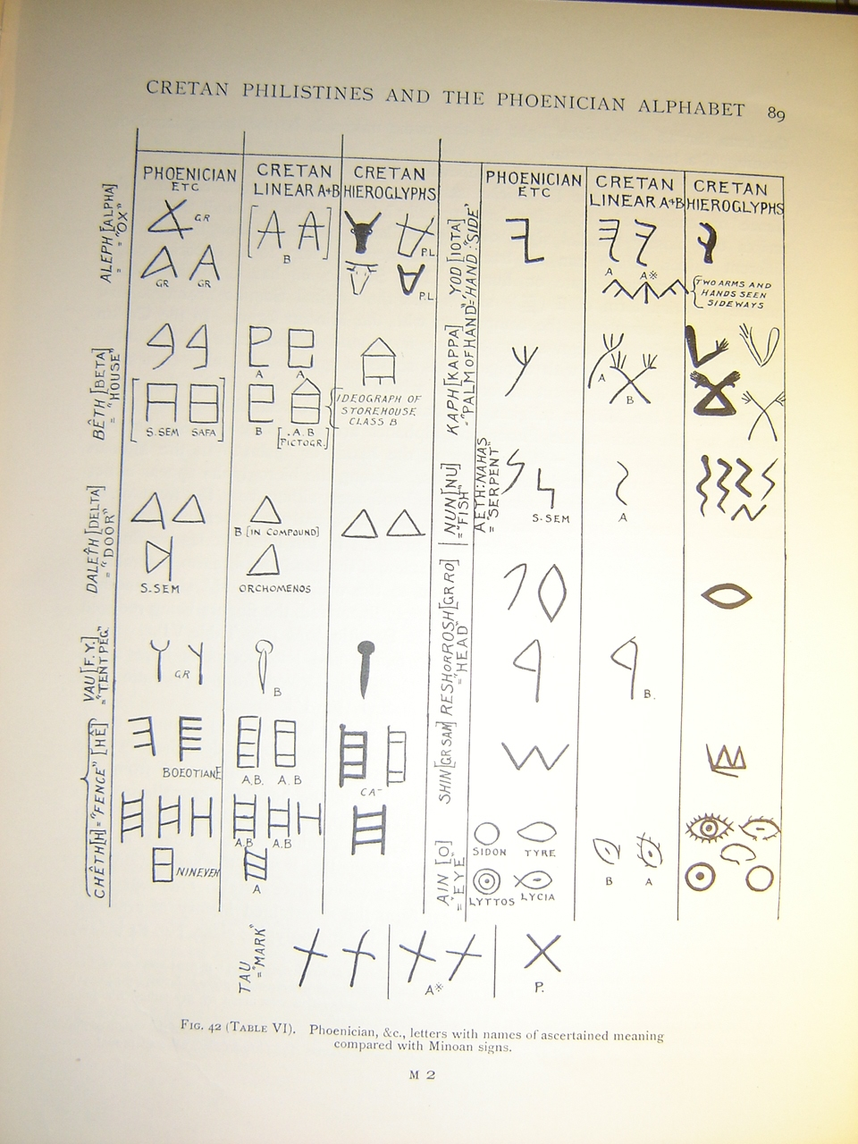 Page 89 from the book "Scripta Minoa", Evans A.J. 1909, Oxford. The table shows the similarity between the Phoenician letters the names of which are of known meaning in some Semitic language and Cretan hieroglyphic and linear script